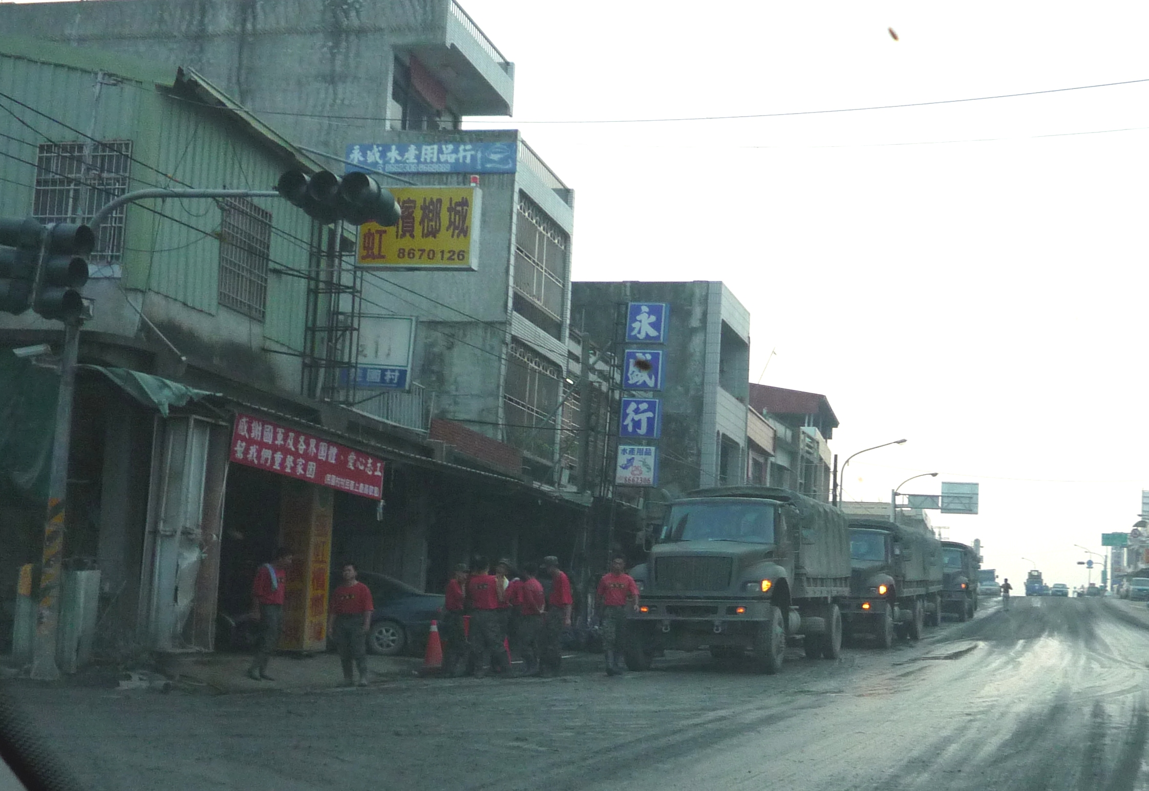 The ROC (Taiwan) Army help to clean up in Chia-tung Pingtung county after Typhoon Morakot. Residents show red banner to thank Army, beneficent organizations and volunteers helping clean-up.